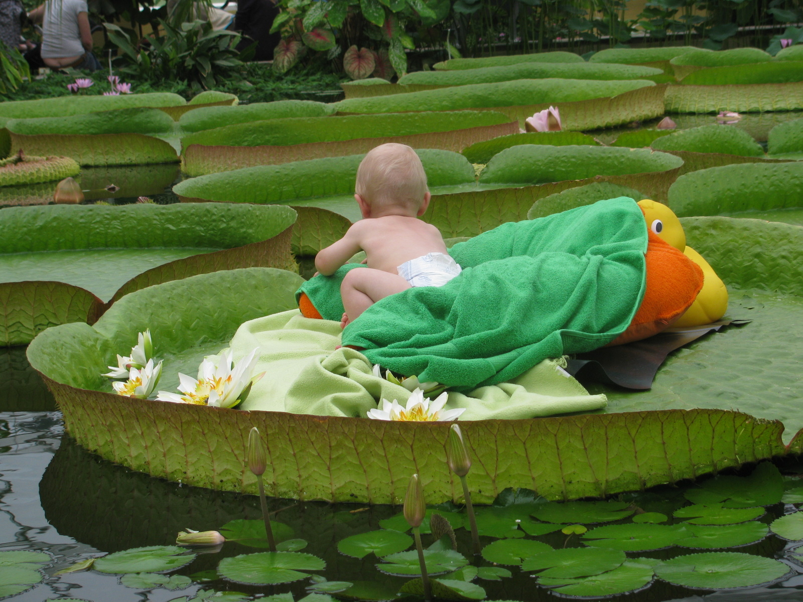 National Botanic Garden of Belgium